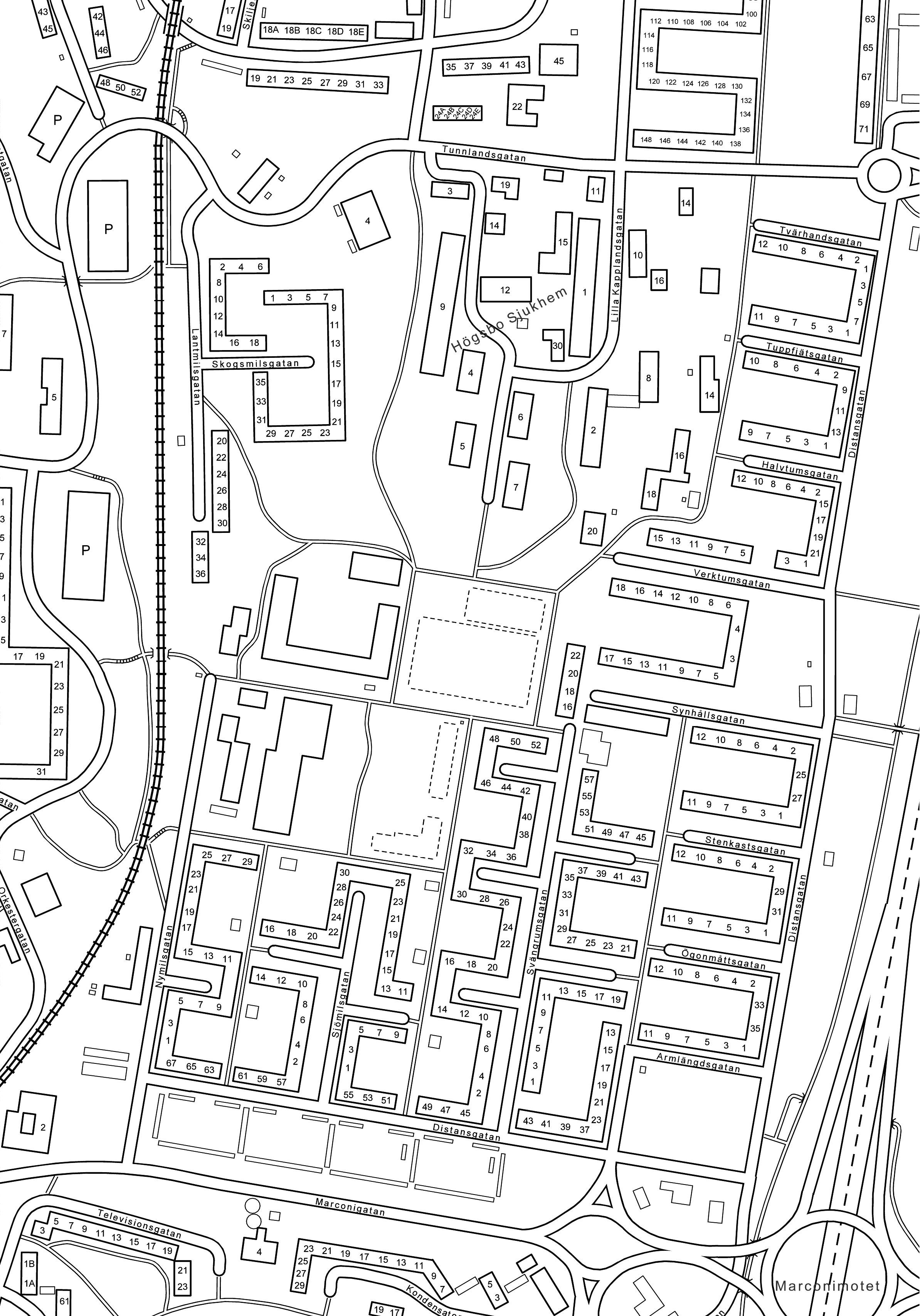 Map over Flatås